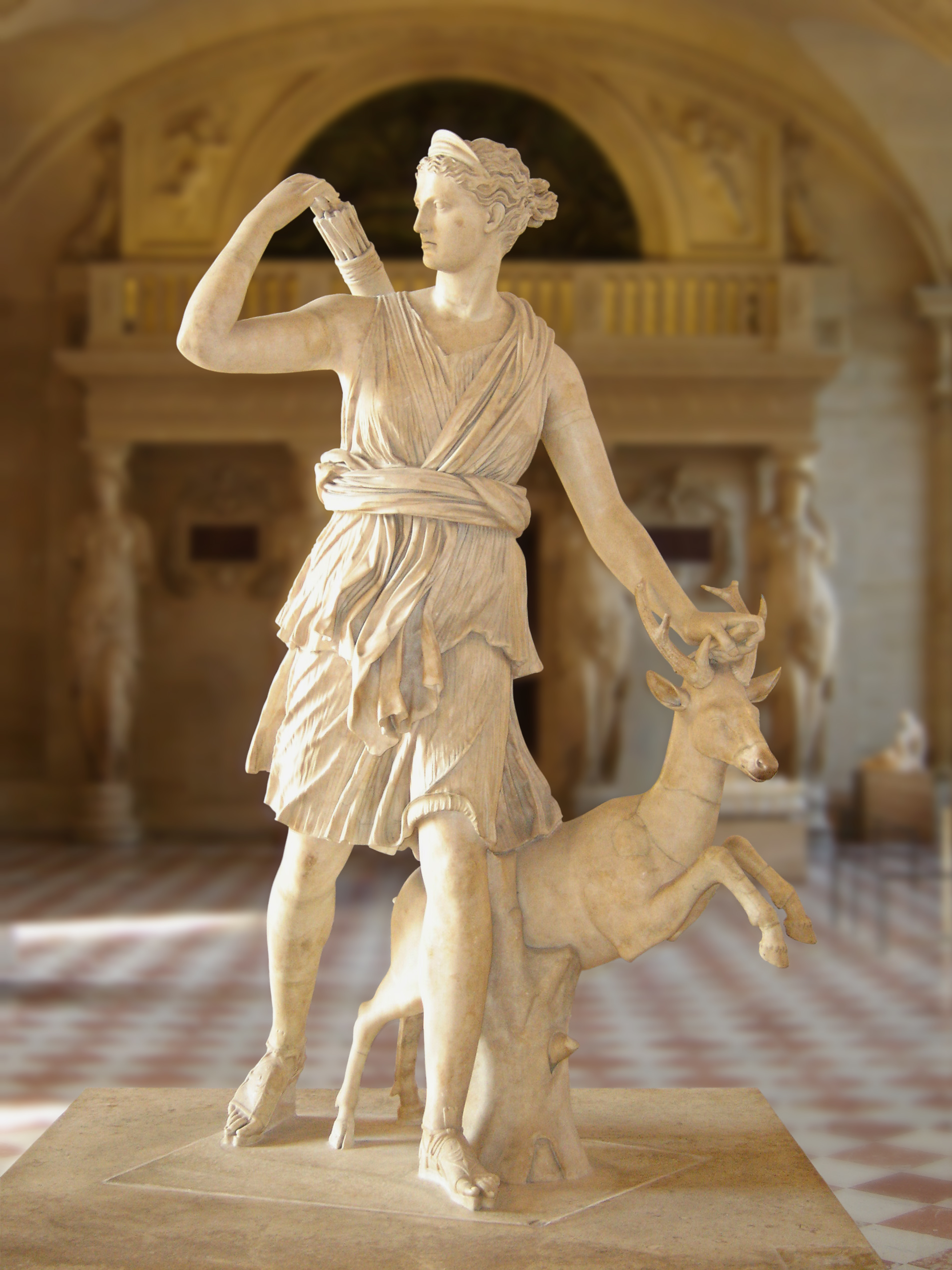 Artemis with a hind, better known as "Diana of Versailles". Marble, Roman artwork, Imperial Era (1st-2nd centuries CE). Found in Italy.